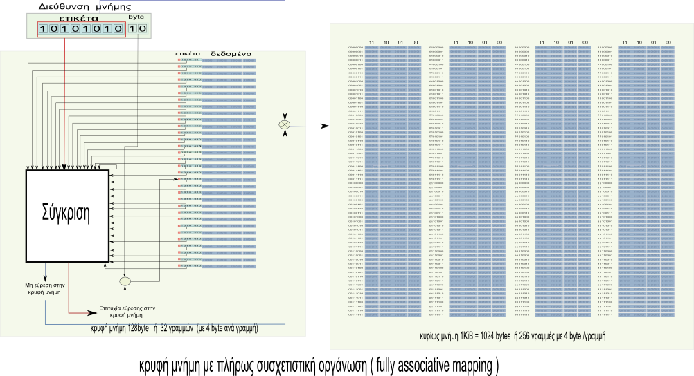 Fully associative cache